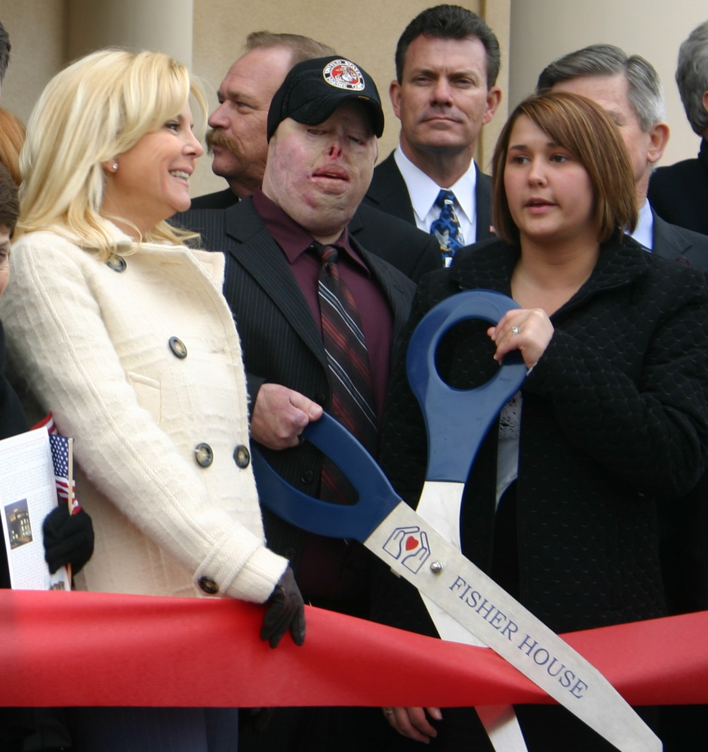 Wounded warrior Marine Cpl. Ty Ziegel cuts the ceremonial ribbon to officially open Fisher Houses 3 and 4 at Fort Sam Houston, Texas, Jan. 29. The new Fisher Houses are a sprawling 16,800 feet and will temporarily house families of wounded warriors recovering at Brooke Army Medical Center. Actress Michelle Pfeiffer (left) participated in the ceremony. Defense Dept. photo by Elaine Wilson